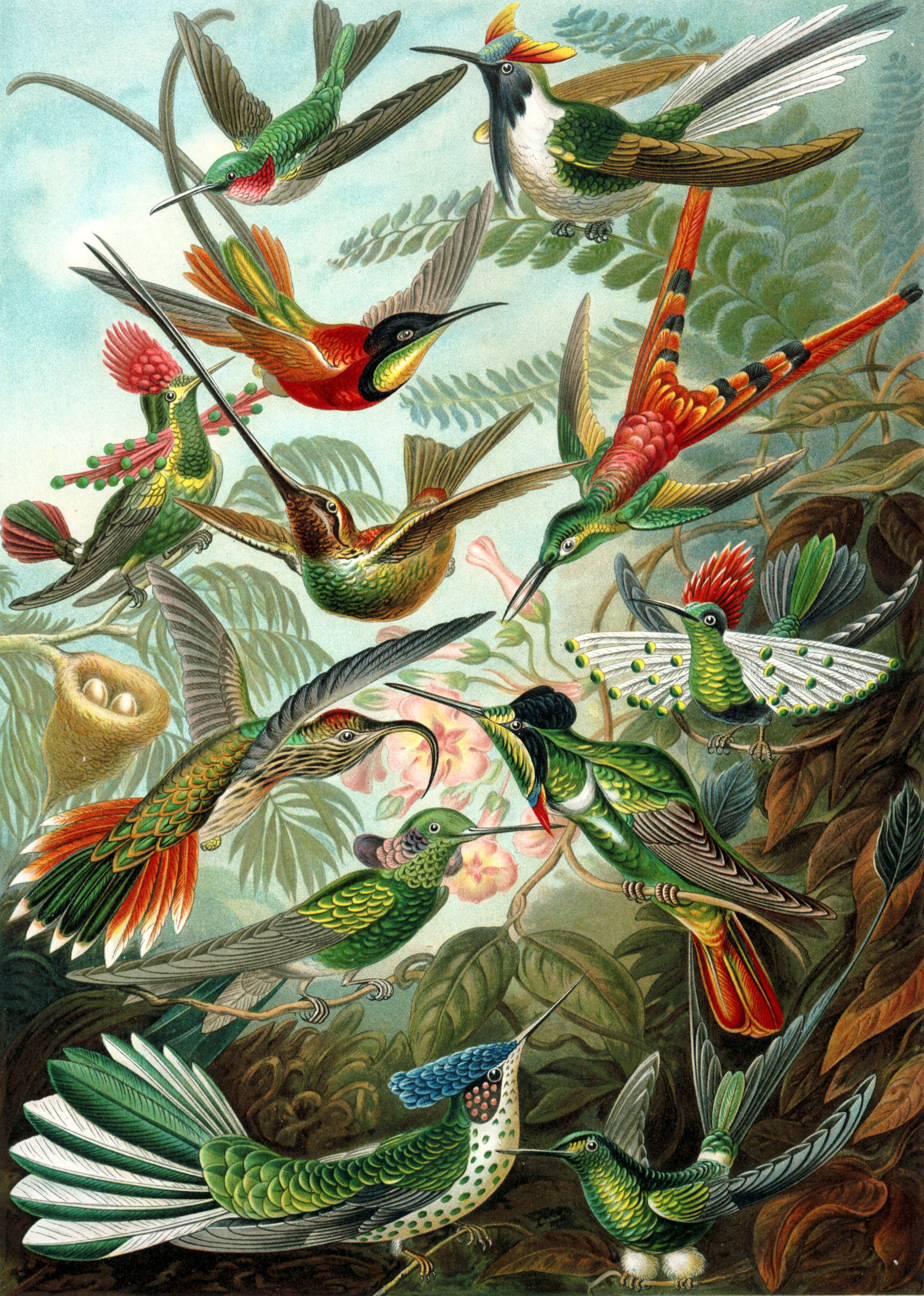 Hummingbirds (drawn from millinery specimens, body positions are not natural) Male Ruby-throated Hummingbird Male Horned Sungem Male Crimson Topaz Male Red-tailed Comet Male Tufted Coquette Male Sword-billed Hummingbird Buff-tailed Sicklebill Male Dot-eared Coquette Male White-vented Violetear Male Hooded Visorbearer Female Juan Fernández Firecrown Male Booted Racket-tail Full text description (in German)